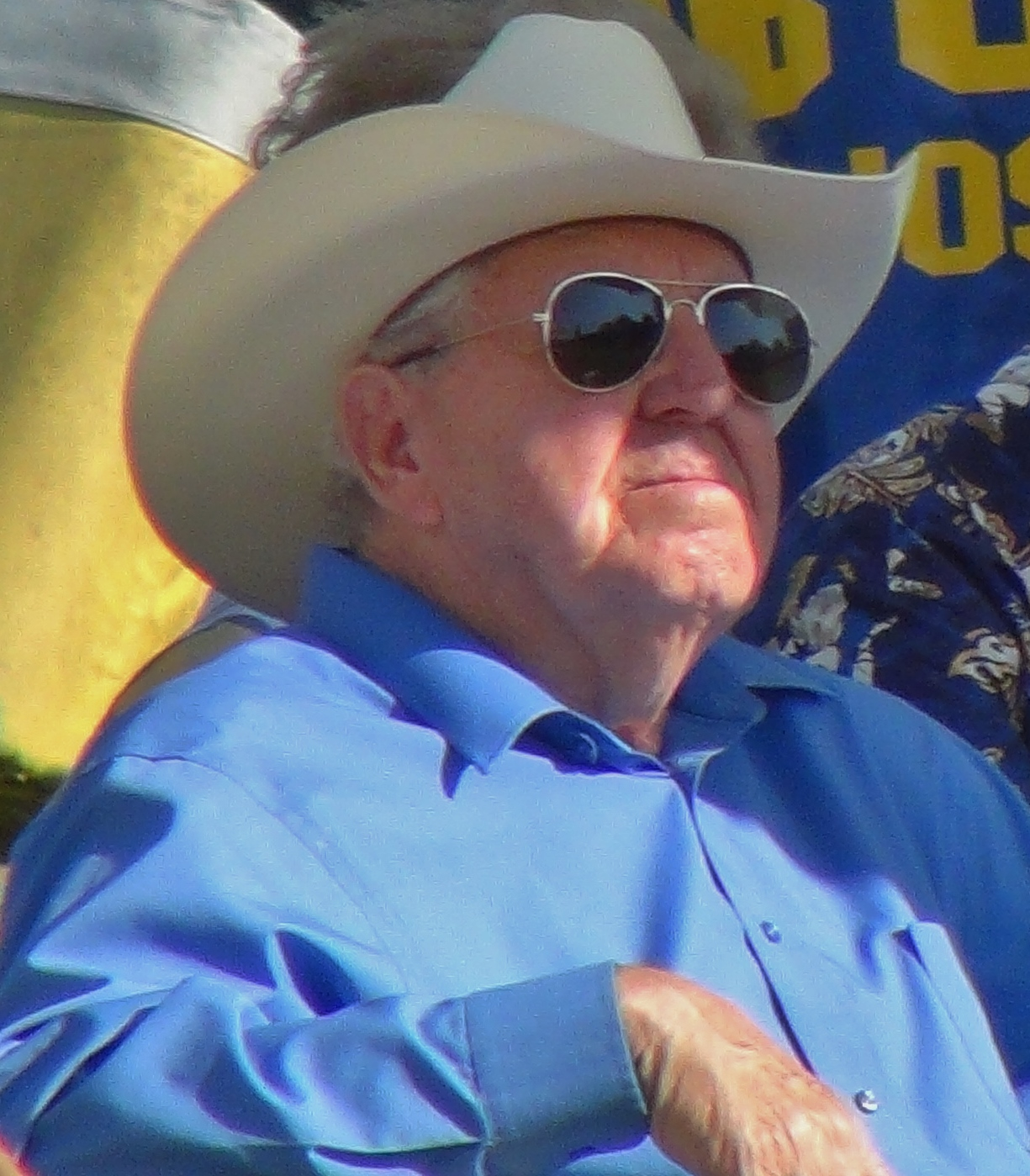 Former San Jose State University football coach Claude Gilbert attends a fundraising event in 2017.